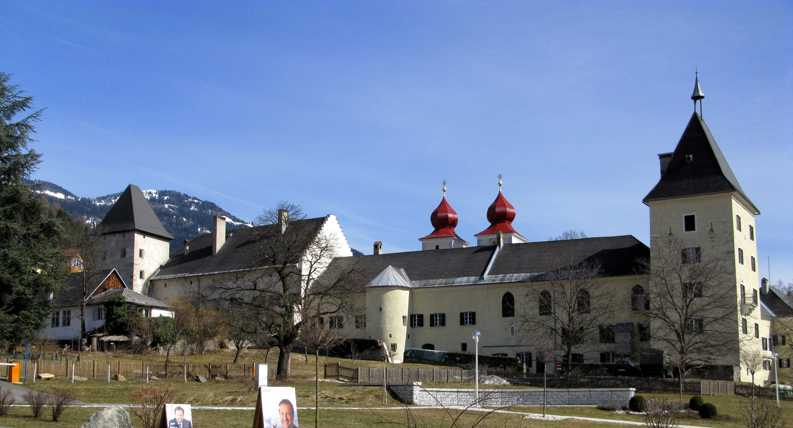 Millstatt Abbey Millstatt district Spittal an der Drau in Carinthia / Austria / European Union. Monastery seen from west in winter.